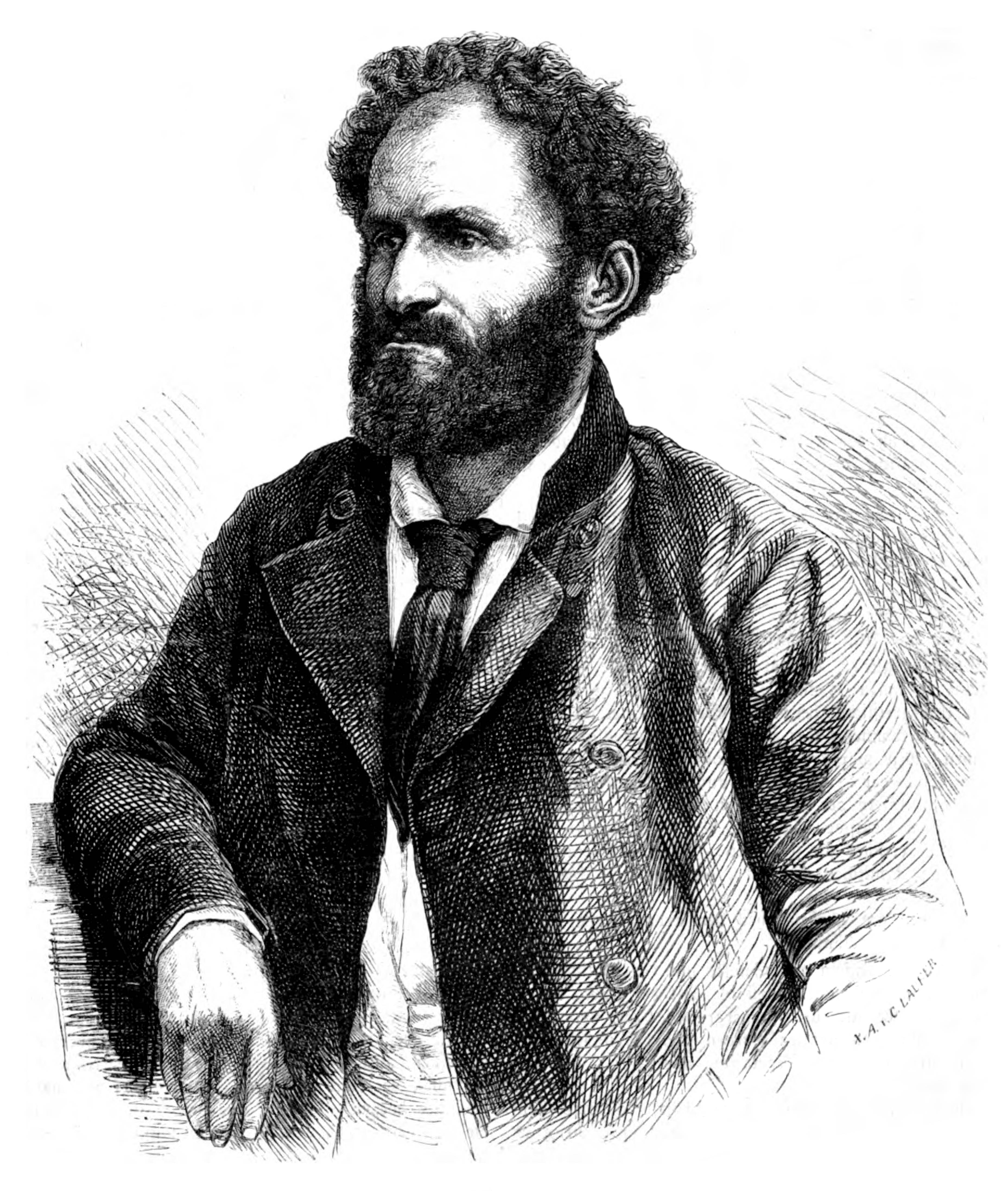 caption: "Friedrich Gerstäcker."